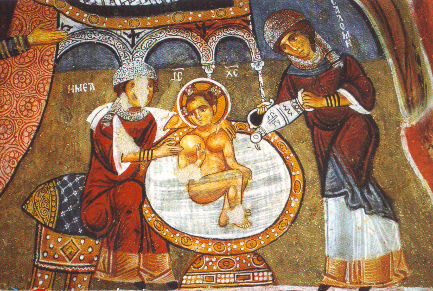 Fresco of nativity with woman Salome (right) bathing child Jesus. Dark Church, Open Air Museum, Goreme, Cappadocia.